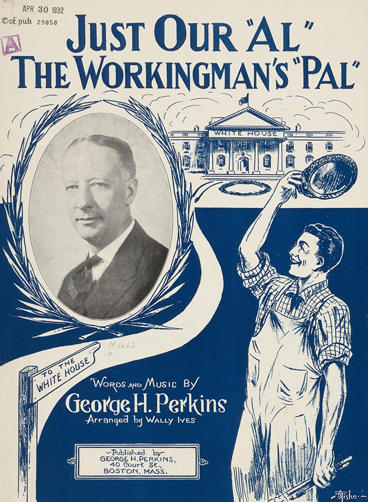 Al Smith presidential campaign, 1932